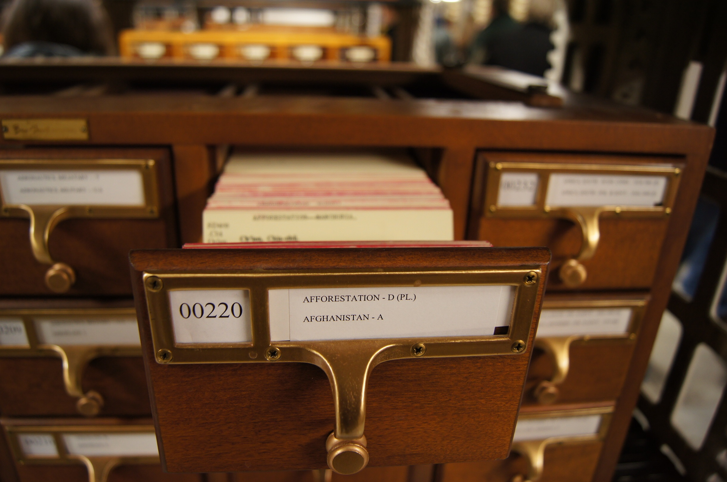 Library of Congress public open house